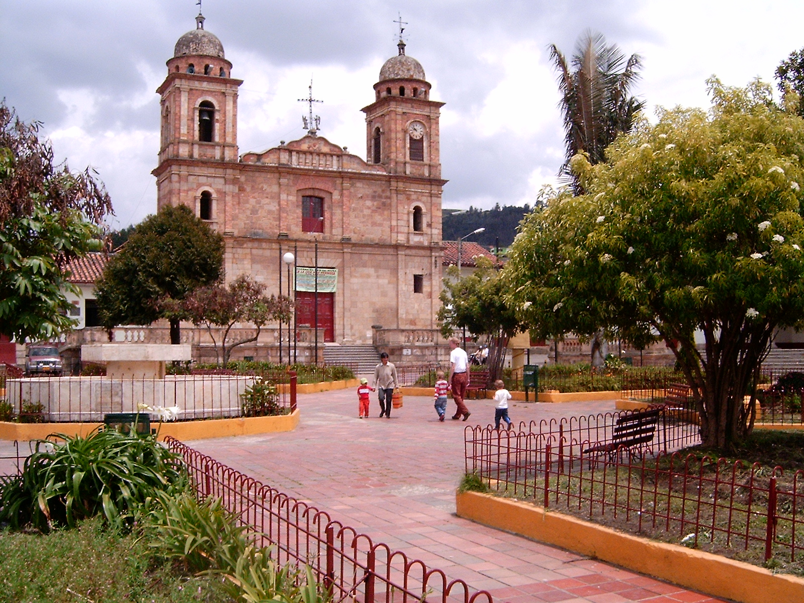 Nemocón central square